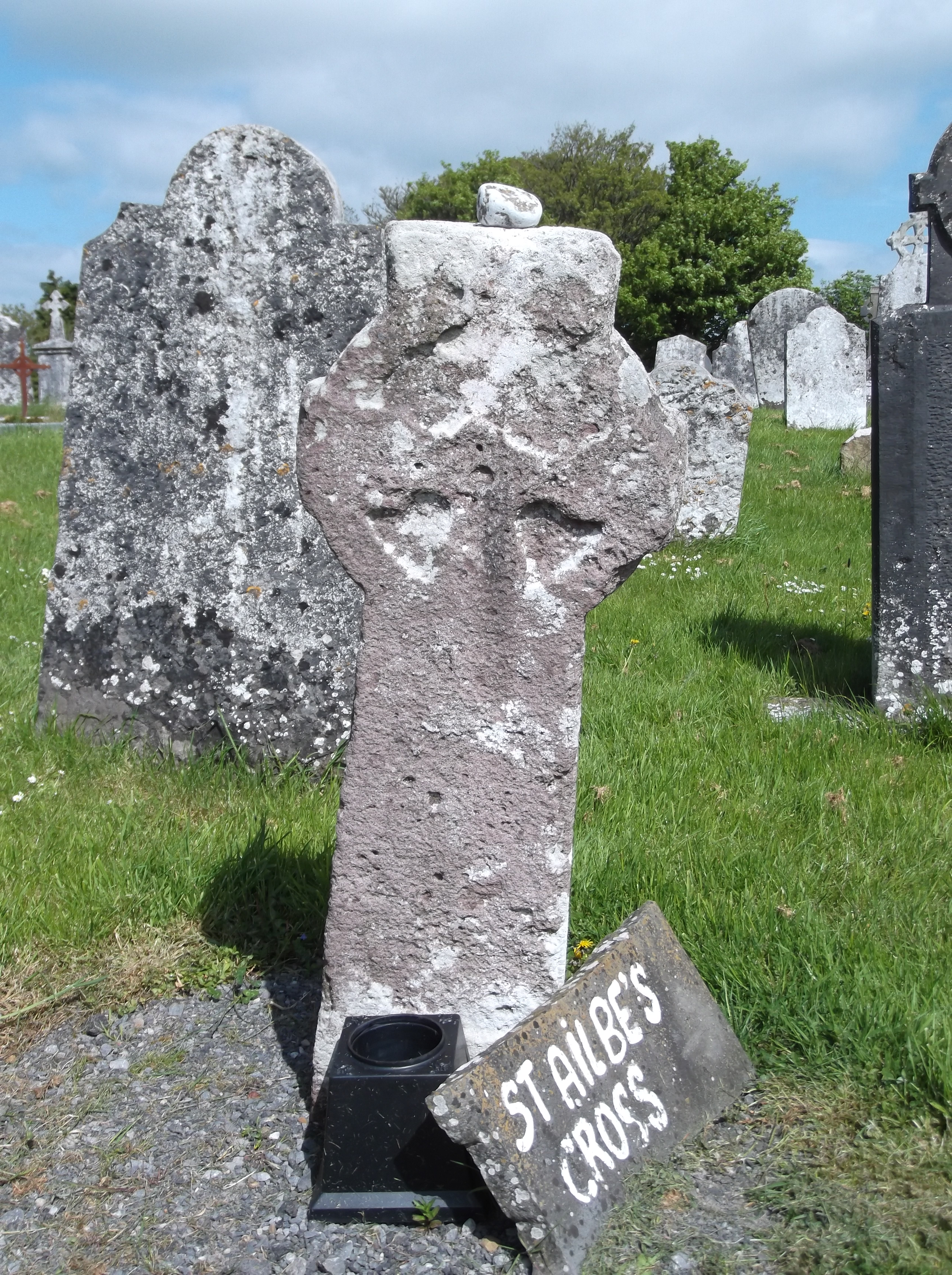 Photograph of St Ailbe's Cross, Emly, Co. Tipperary, remnant of an early cathedral and monastic site